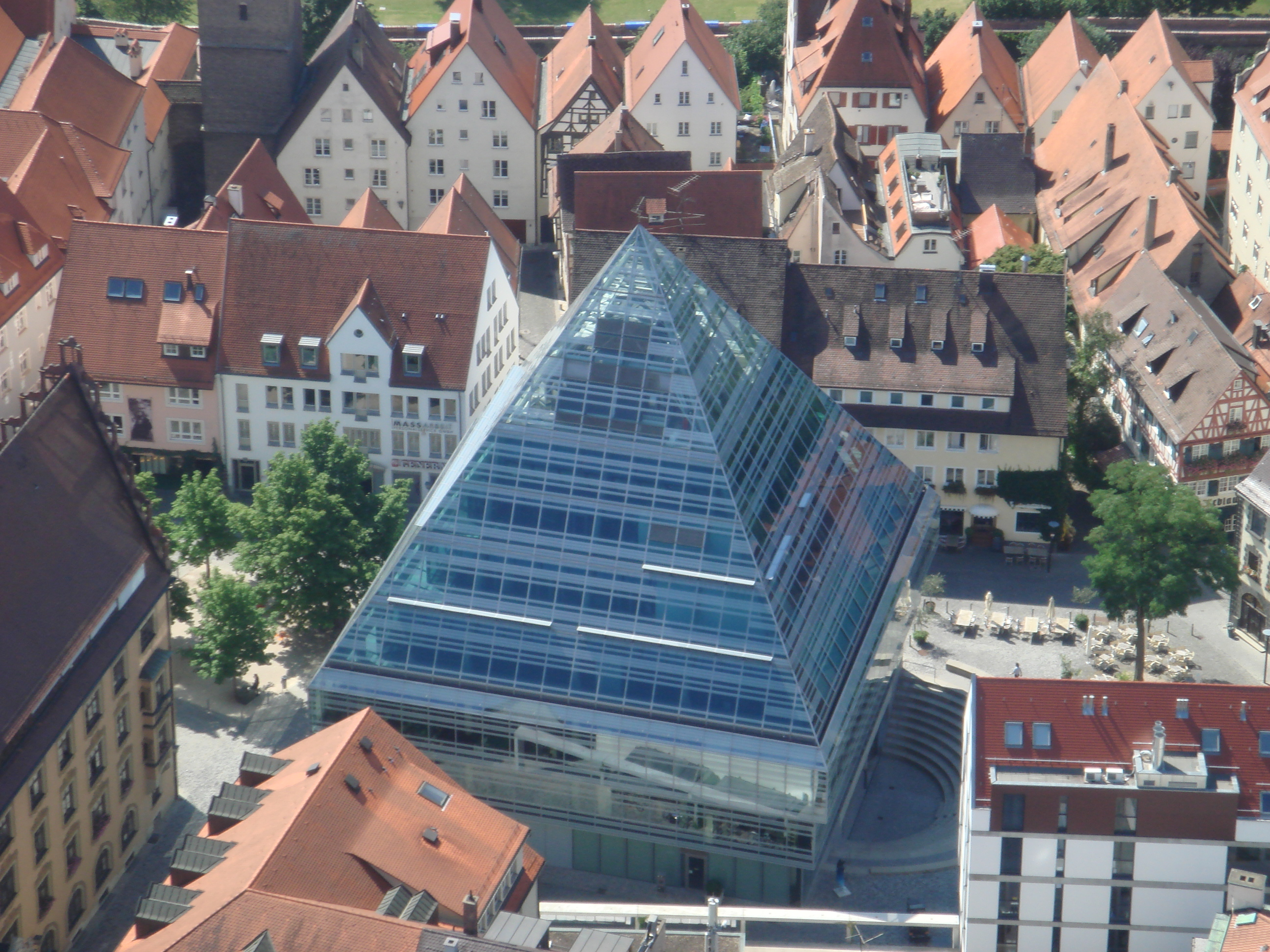 The Ulm Public Library from the Ulm Münster.